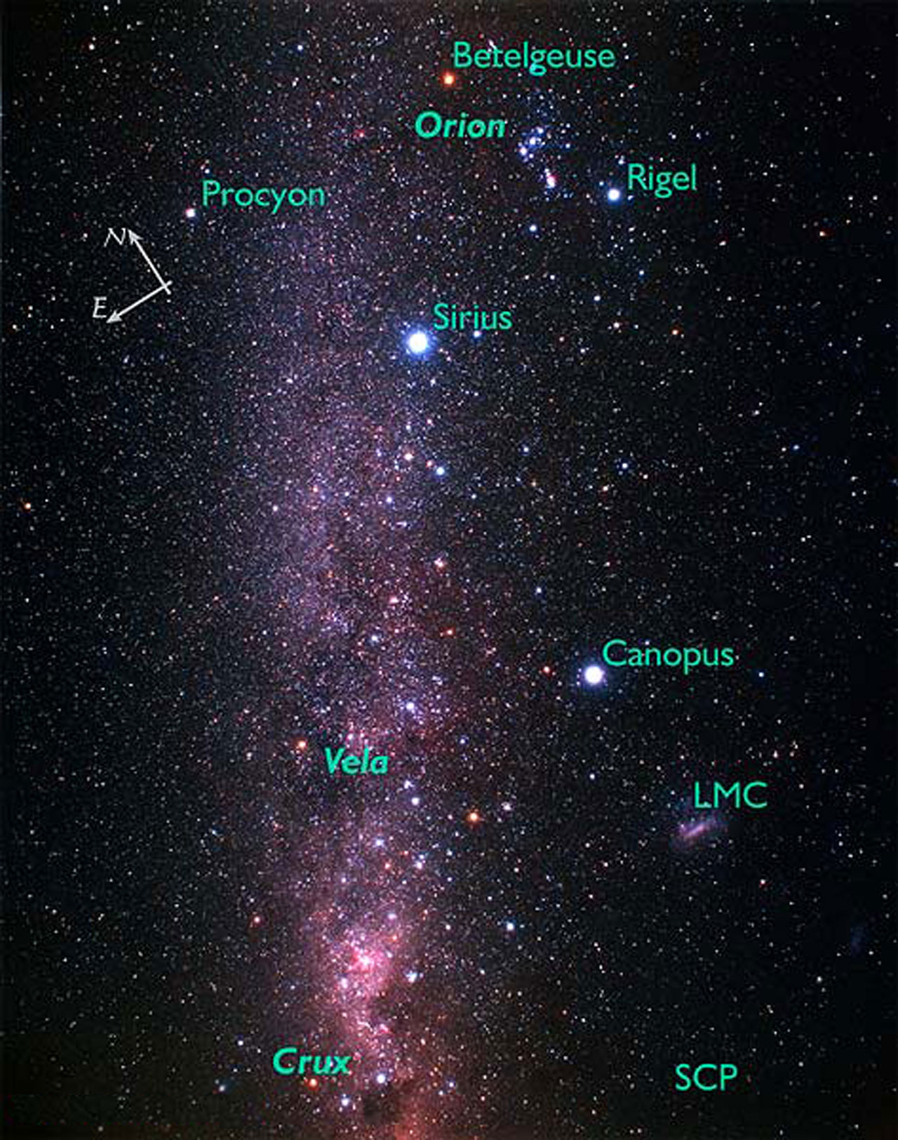 Vela, SNR 263.4-03.0, Betelgeuse, IRAS 05524+0723, Rigel, IRAS 05121-0815, Procyon, IRAS 07366+0520, Orion, M 42, NGC 1976, Messier 42, Sirius, IRAS 06429-1639, Canopus, IRAS 06228-5240, LMC, Large Magellanic Cloud, IRAS 05240-6948, Crux, IRAS 13085-6443, SCP, South Celestial Pole